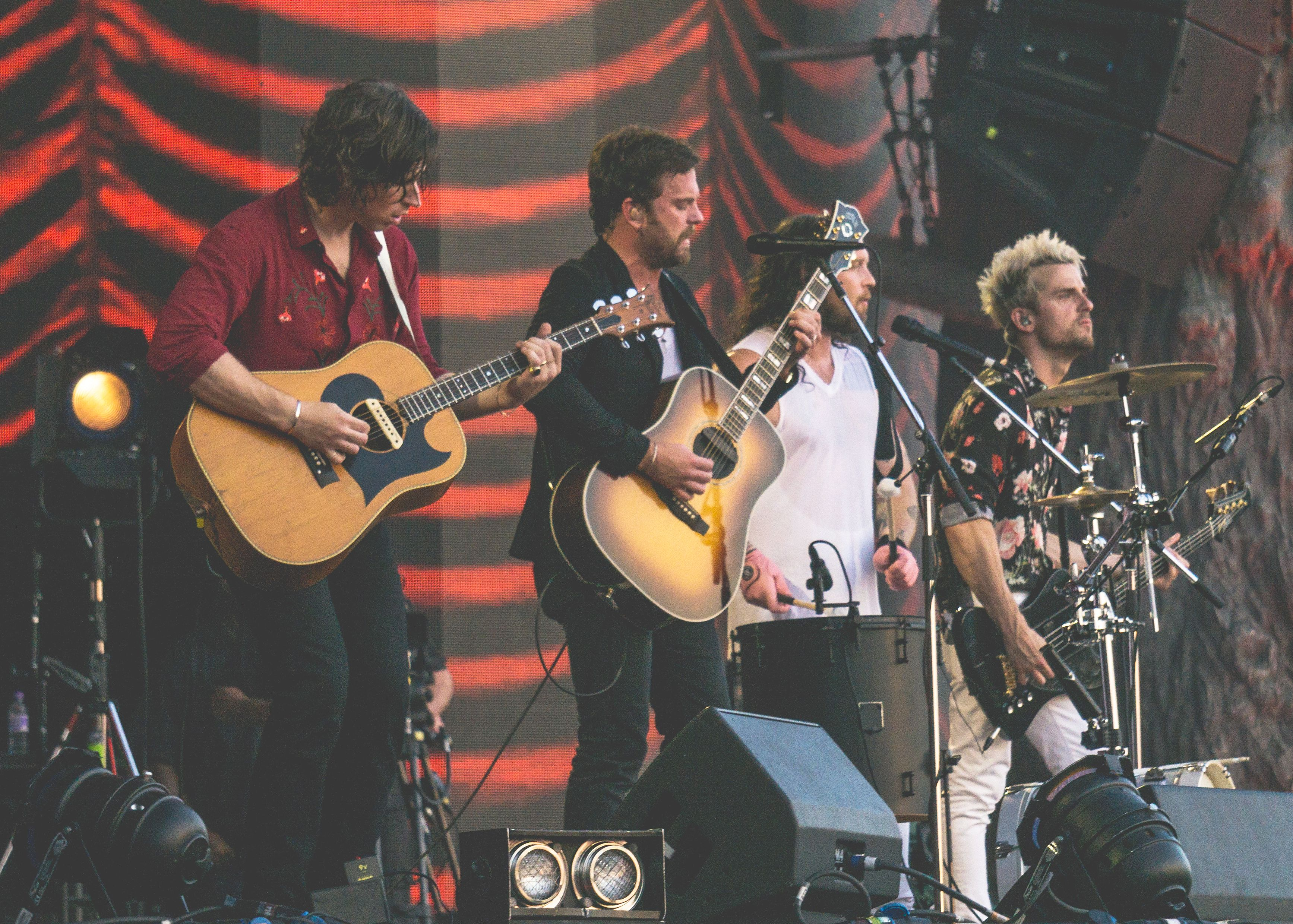 Kings of Leon live at Hyde Park July 2017